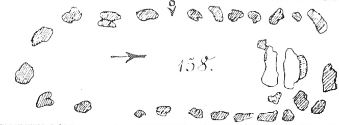 Outline of the dolmen Tangeln 6, Saxony-Anhalt